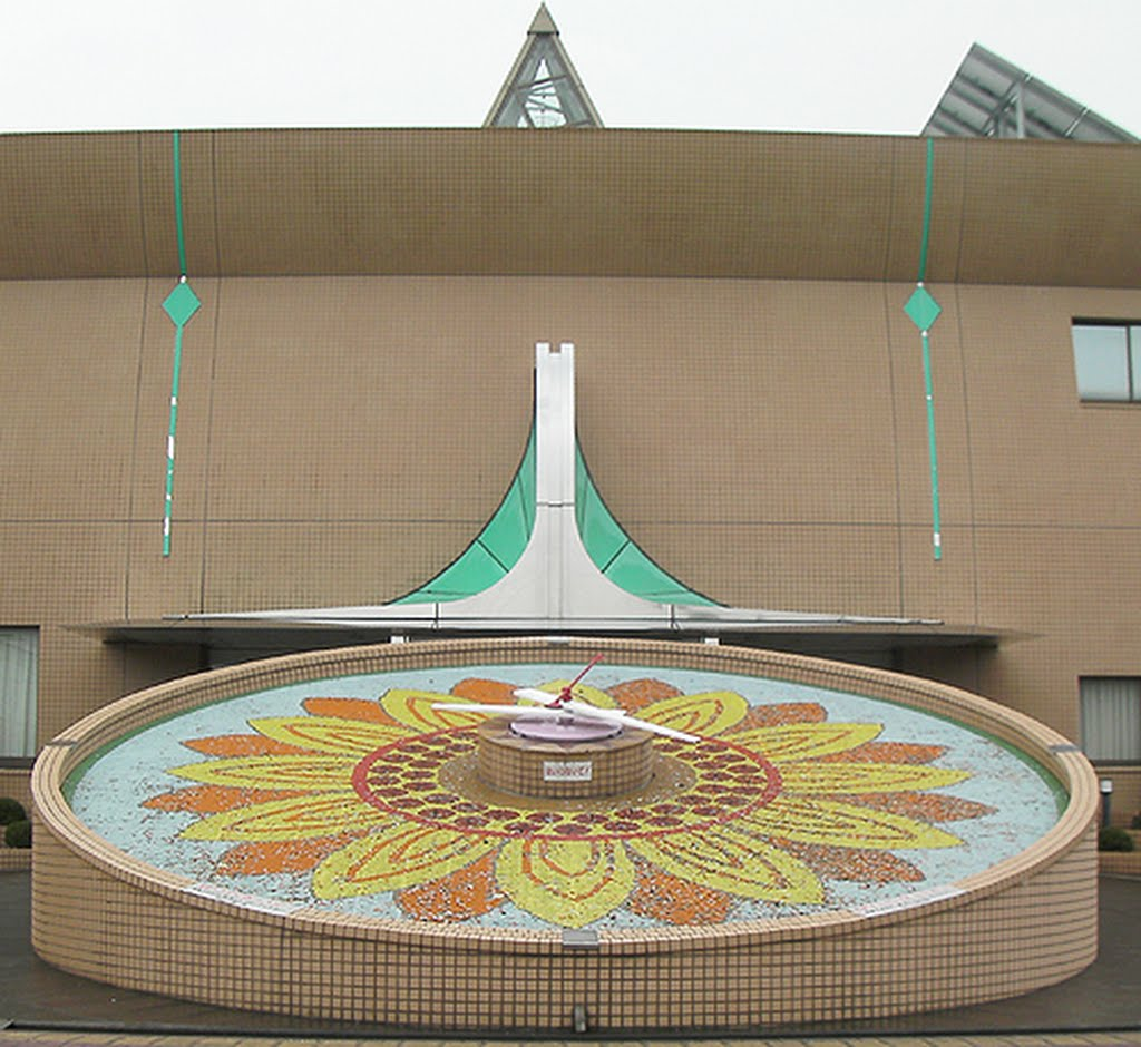 This is Furusato Tado Bungakukan, a library in Kuwana, Mie, Japan.